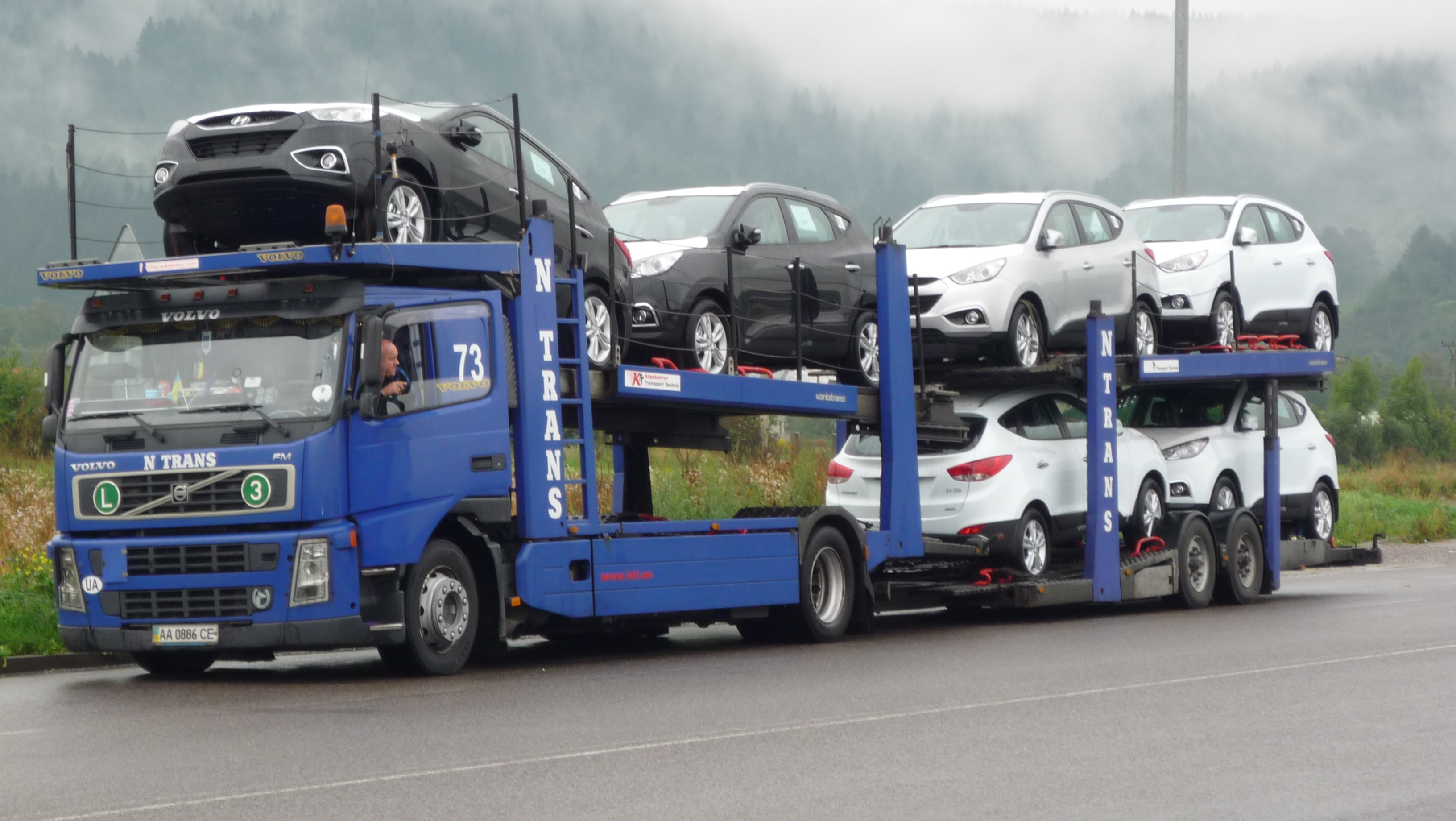 New Hyundai ix35 from Slovakia to Ukraine